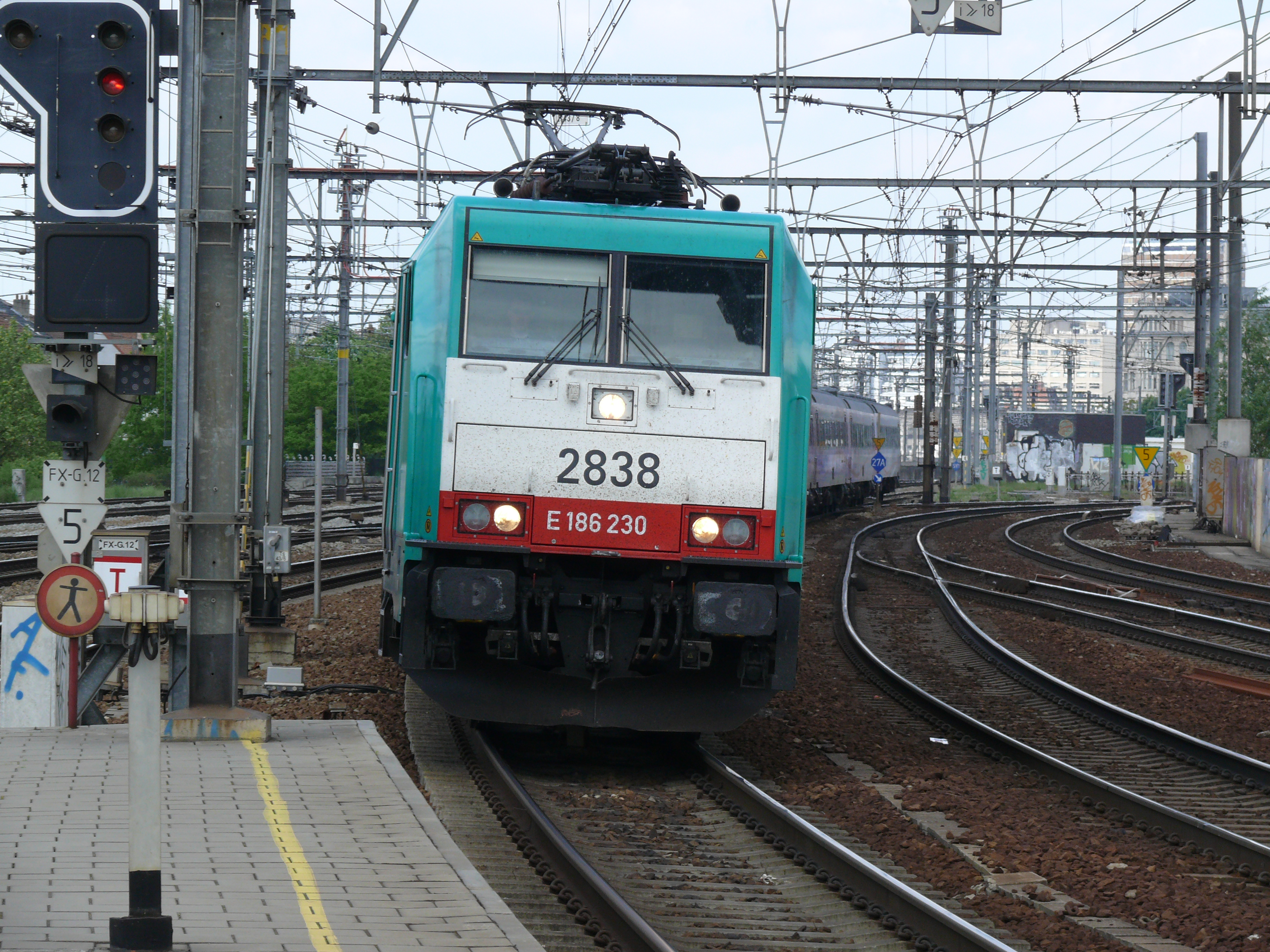 Bombardier TRAXX F140 MS2 Class 28 (2838) (or Baureihe 186.230) of NMBS/SNCB on the Benelux-line between Amsterdam and Brussels in Antwerpen-Berchem railway station.